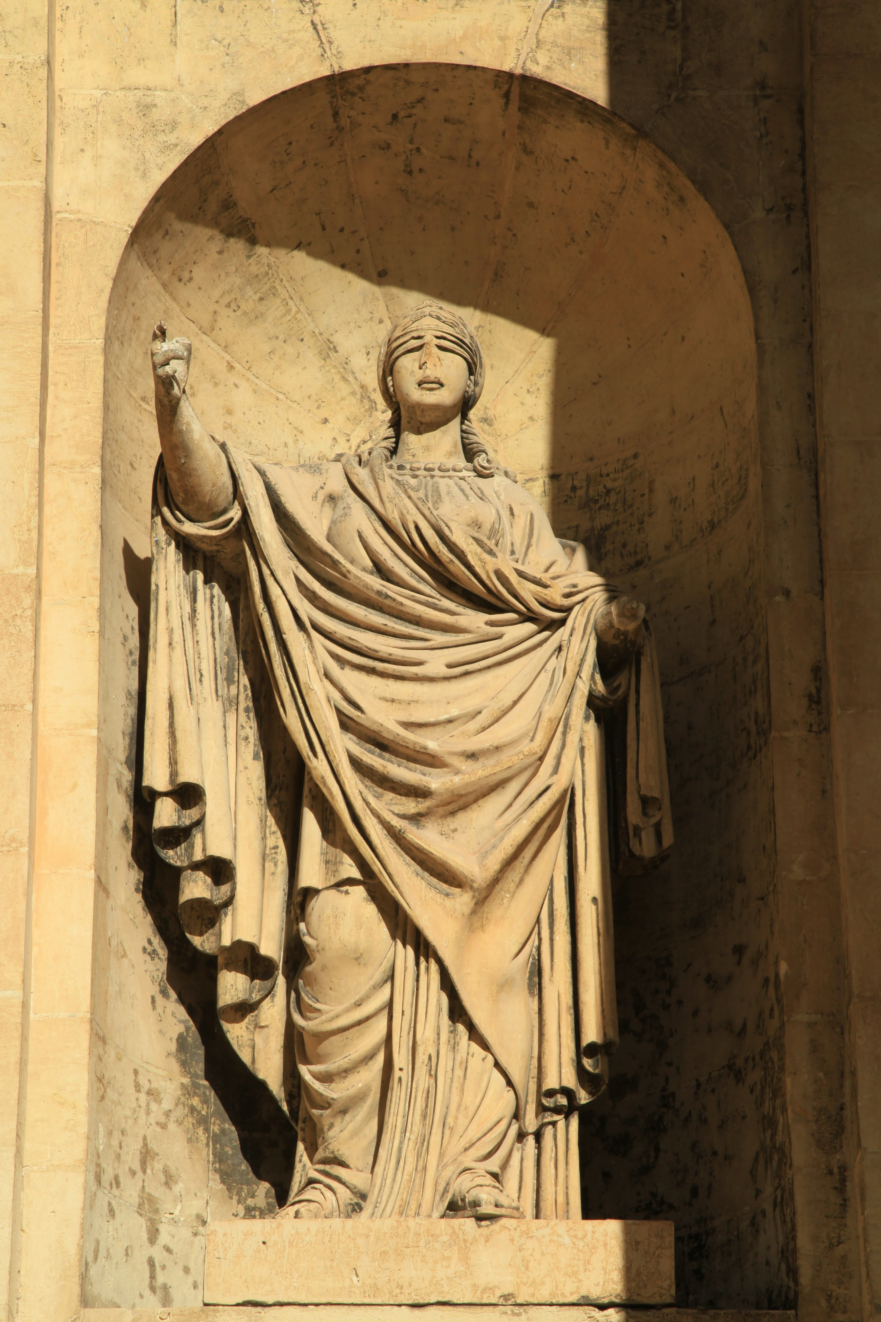 Monument to Alexander Ball, Lower Barrakka Gardens, Triq il-Lvant in Valletta, Malta